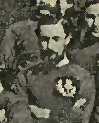 John Arthur from a picture of the first Scotland Rugby side in 1871.